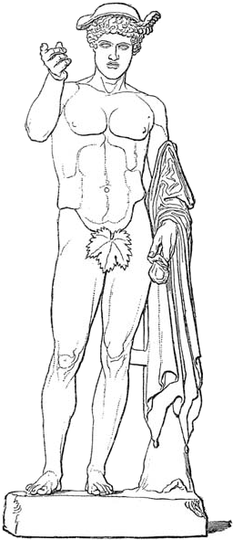 1888 drawing of the so-called “Logios Hermes”. Marble, Roman copy from the late 1st century CE-early 2nd century CE after a Greek original of the 5th century BC.